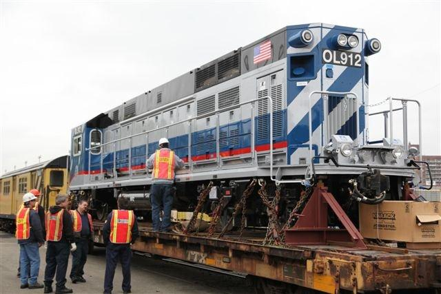 On May 1, 2012, the first of 28 new work locomotives[1] was delivered to MTA New York City Transit. The agency maintains a fleet of 62 diesel-electric locomotives that haul work trains and pumping equipment into sections of track where power to the third rail has been turned off to facilitate capital construction, maintenance work or repair damage. Photo by MTA New York City Transit / Leonard Wiggins. The unit is an Motive Power, Inc. MP 8AC-3, designated an R156 by the MTA.